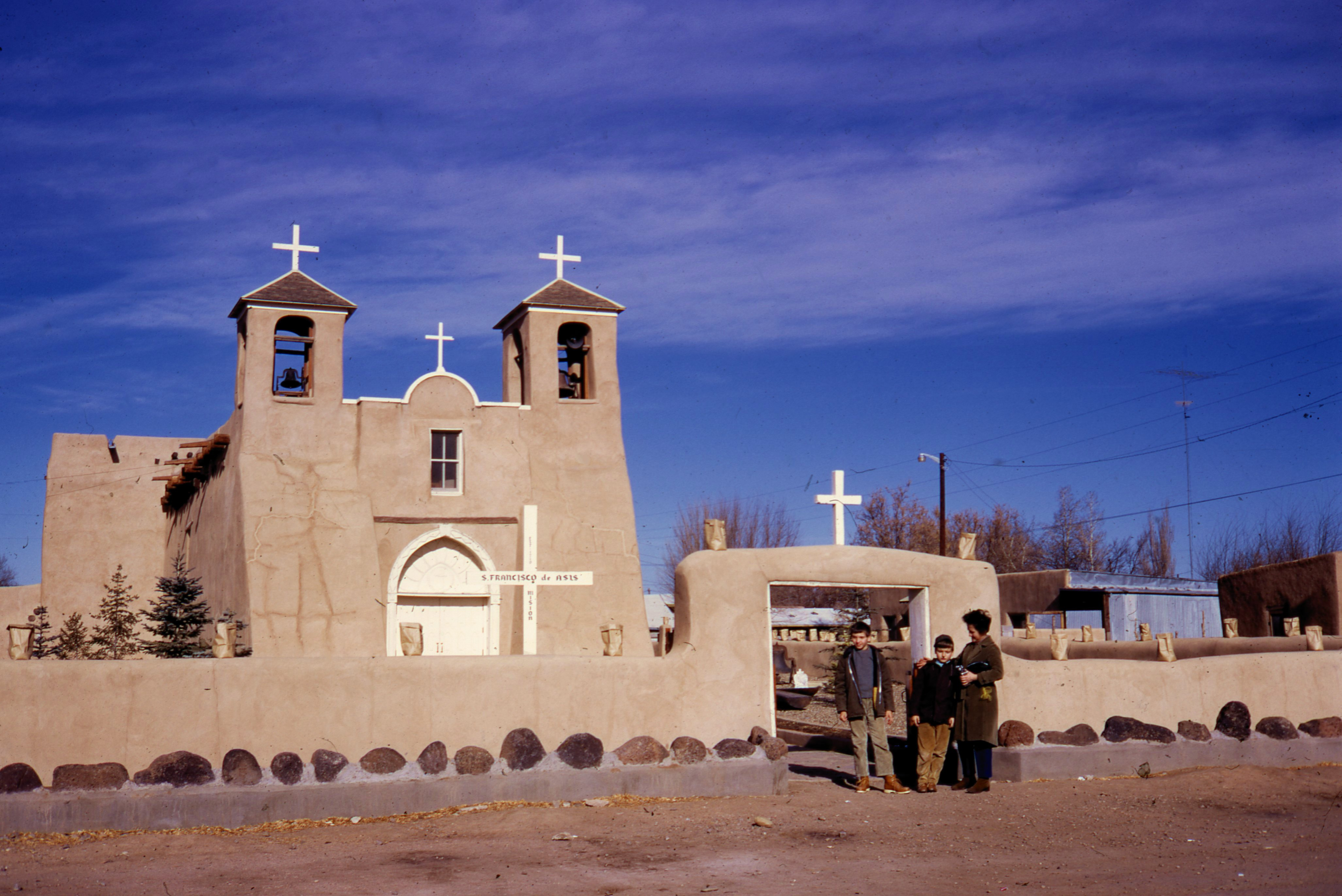 St. Francis of Assisi Mission Church in Ranchos de Taos, New Mexico